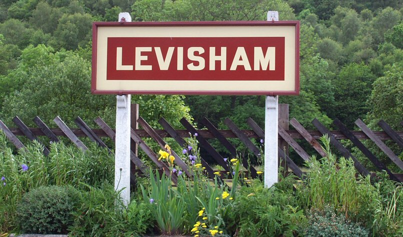 This is a trimmed version of a digital photograph I took in June 2002. The original is now part of the NYMHRT Archives Digital Image Library. This version has been produced and uploaded with the agreement of the Hon. Archivist, NYMHRT.